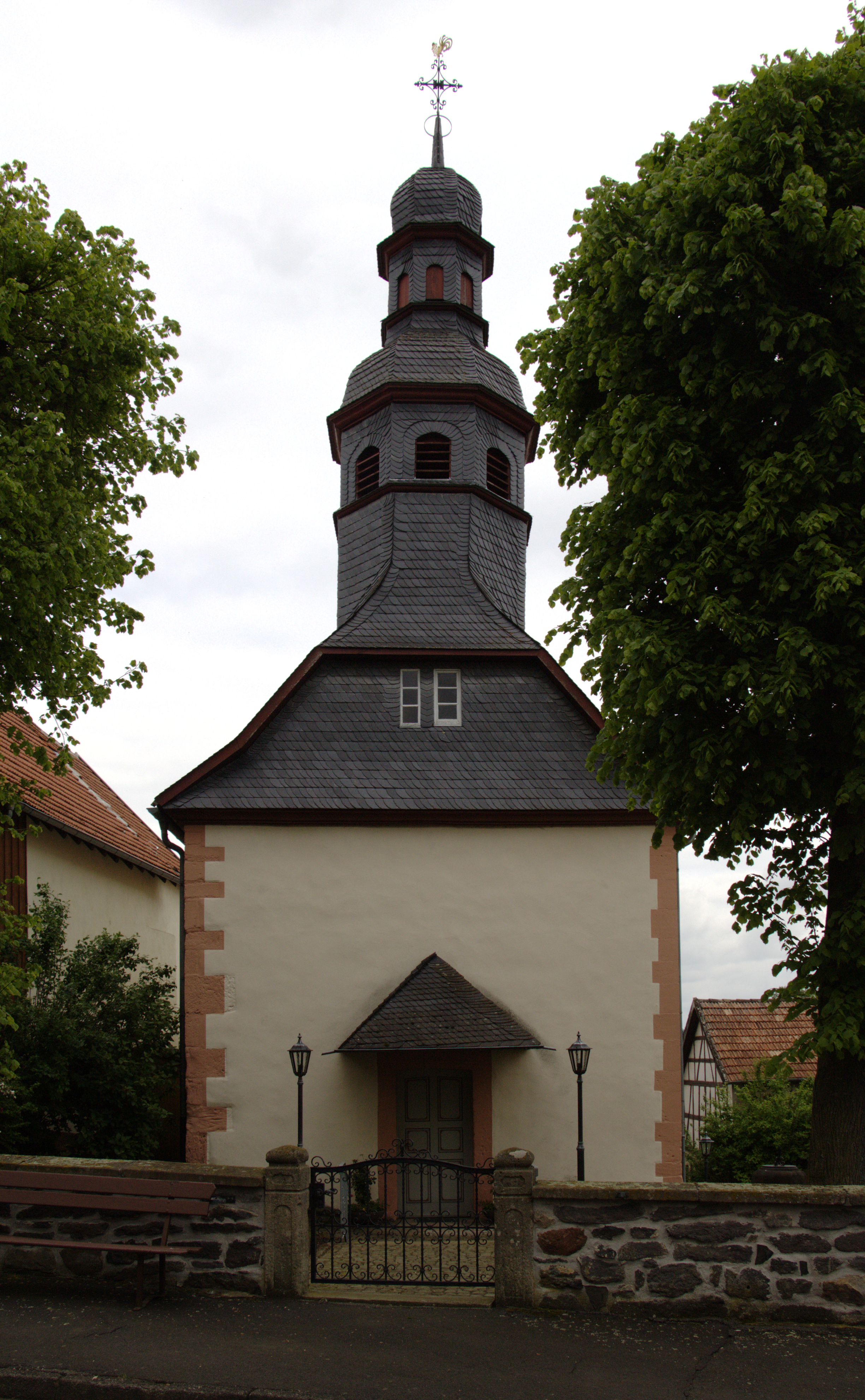 Protestant church in Alsfeld Schwabenrod An der Kirche 4 / Hesse / Germany